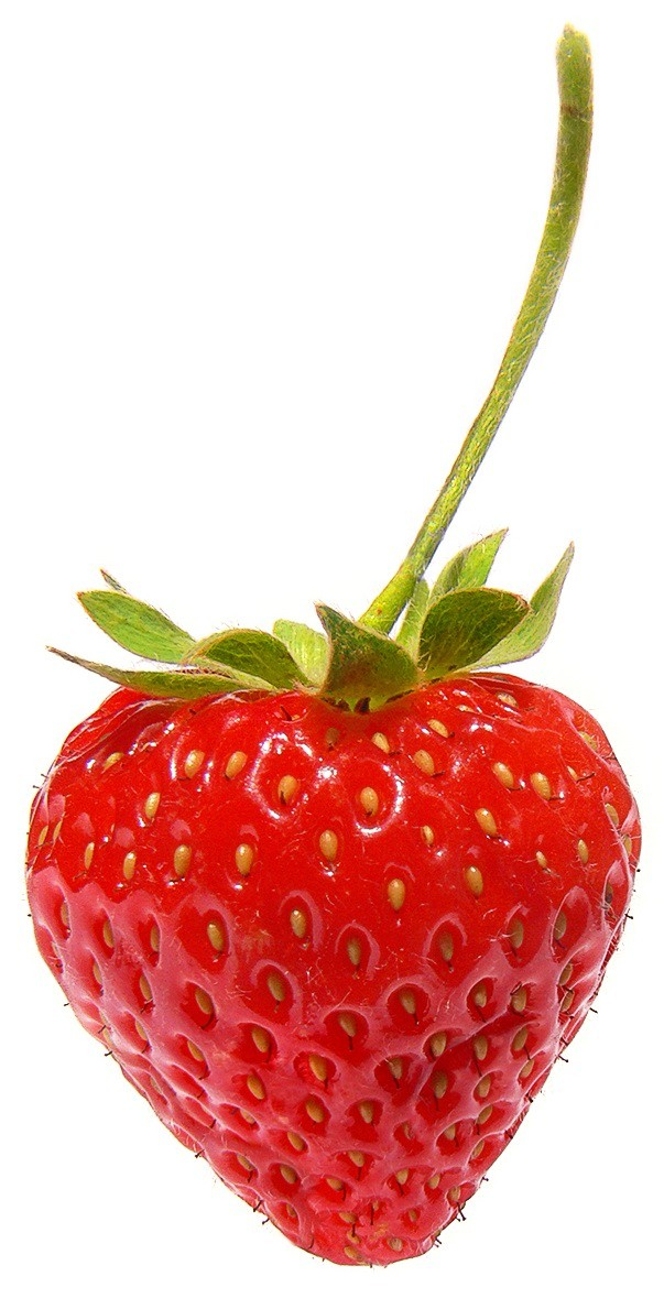 A garden strawberry, Fragaria × ananassa.